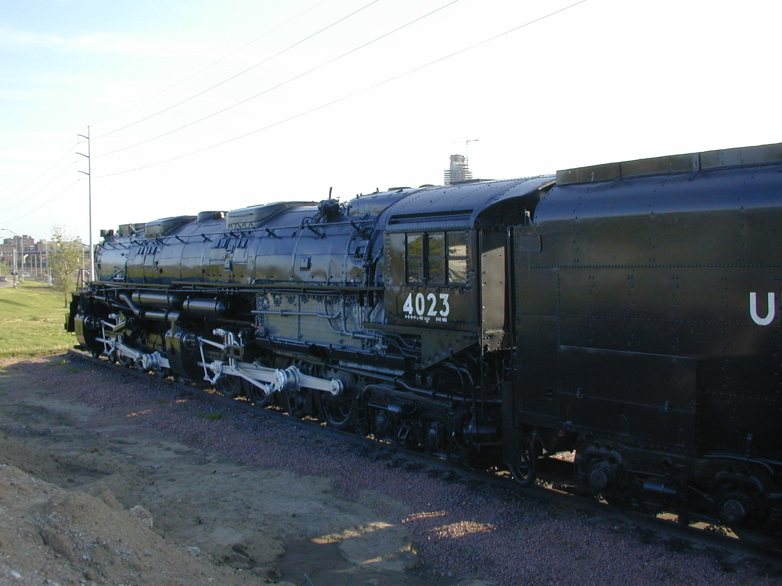 Union Pacific Big Boy 4-8-8-4 steam locomotive 4023. The 4023 is one of a class of 25 locomotives built between 1941 and 1944 by Alco. The picture was taken in Omaha, Nebraska. The locomotive has since been relocated to Kenefick Park. This image is of the cab and front trucks.